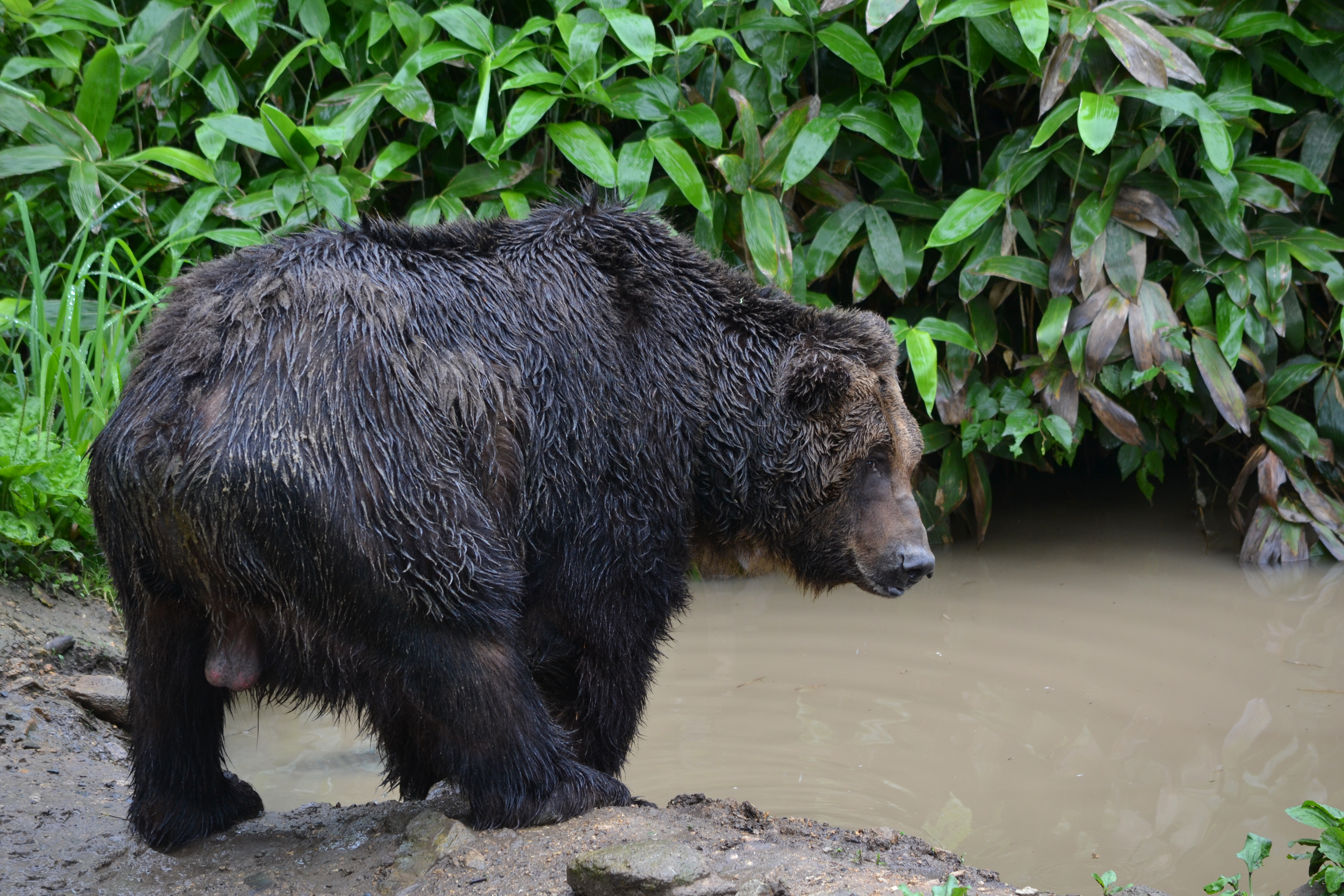 Sahoro Resort Bear Mountain